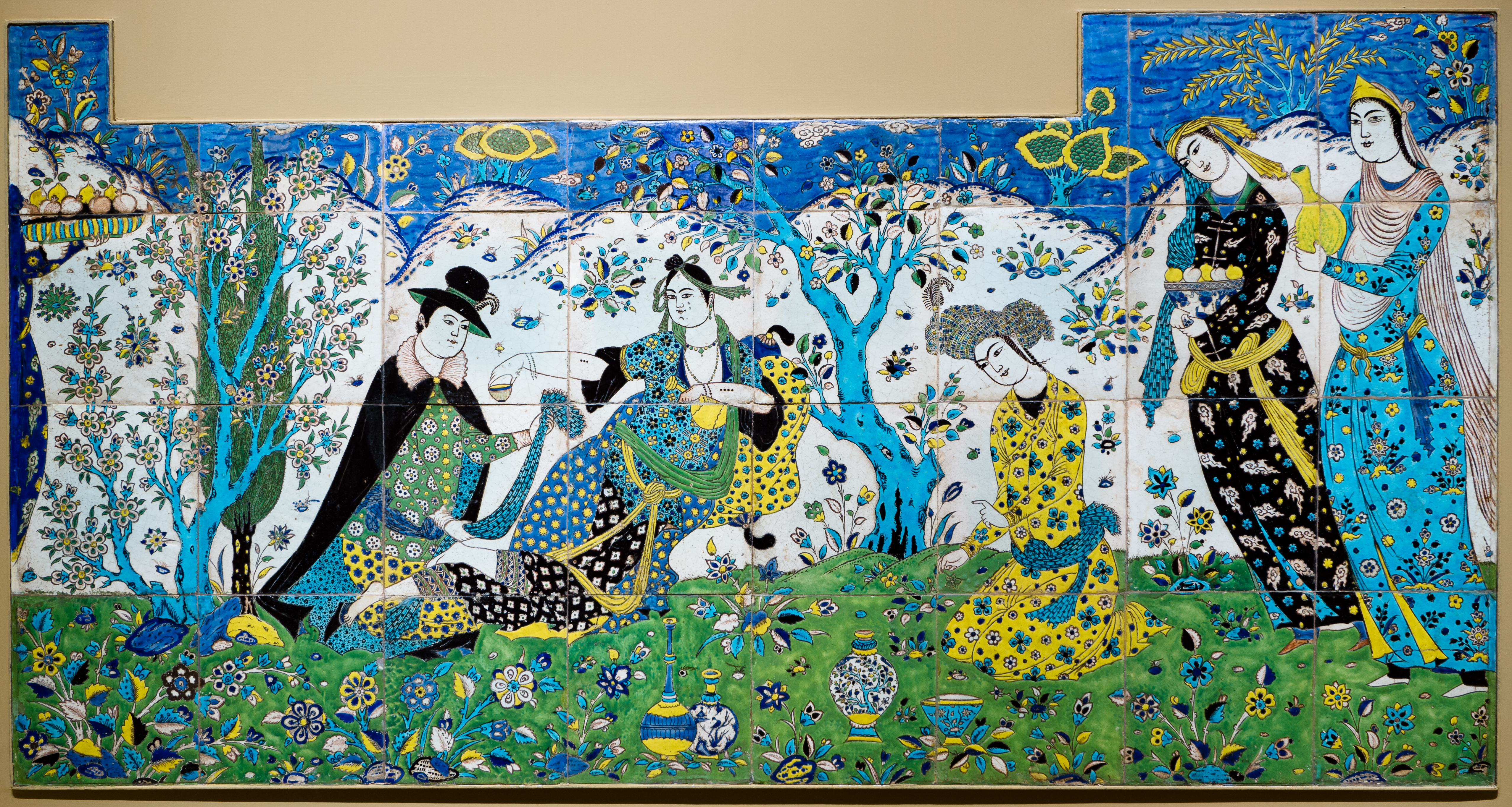 Safavid tile panels, Iran, Probably Isfahan. Such panels could be found in the garden pavilion and in the palace of Isfahan.